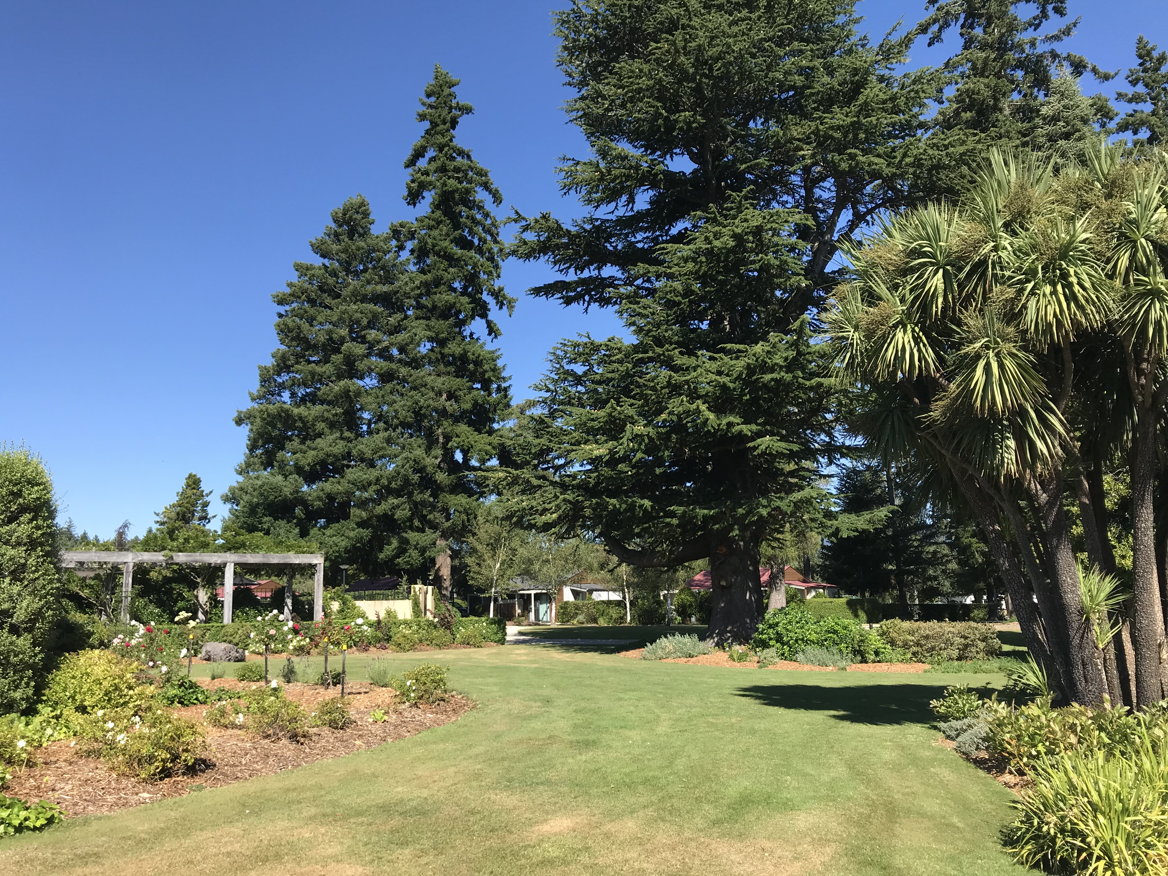 The grounds of Hanmer Heritage hotel, formerly Hanmer Lodge. These grounds were at one point the only known location of the endangered plant Leptinella filiformis, which was rescued and propagated before the grounds were landscaped.